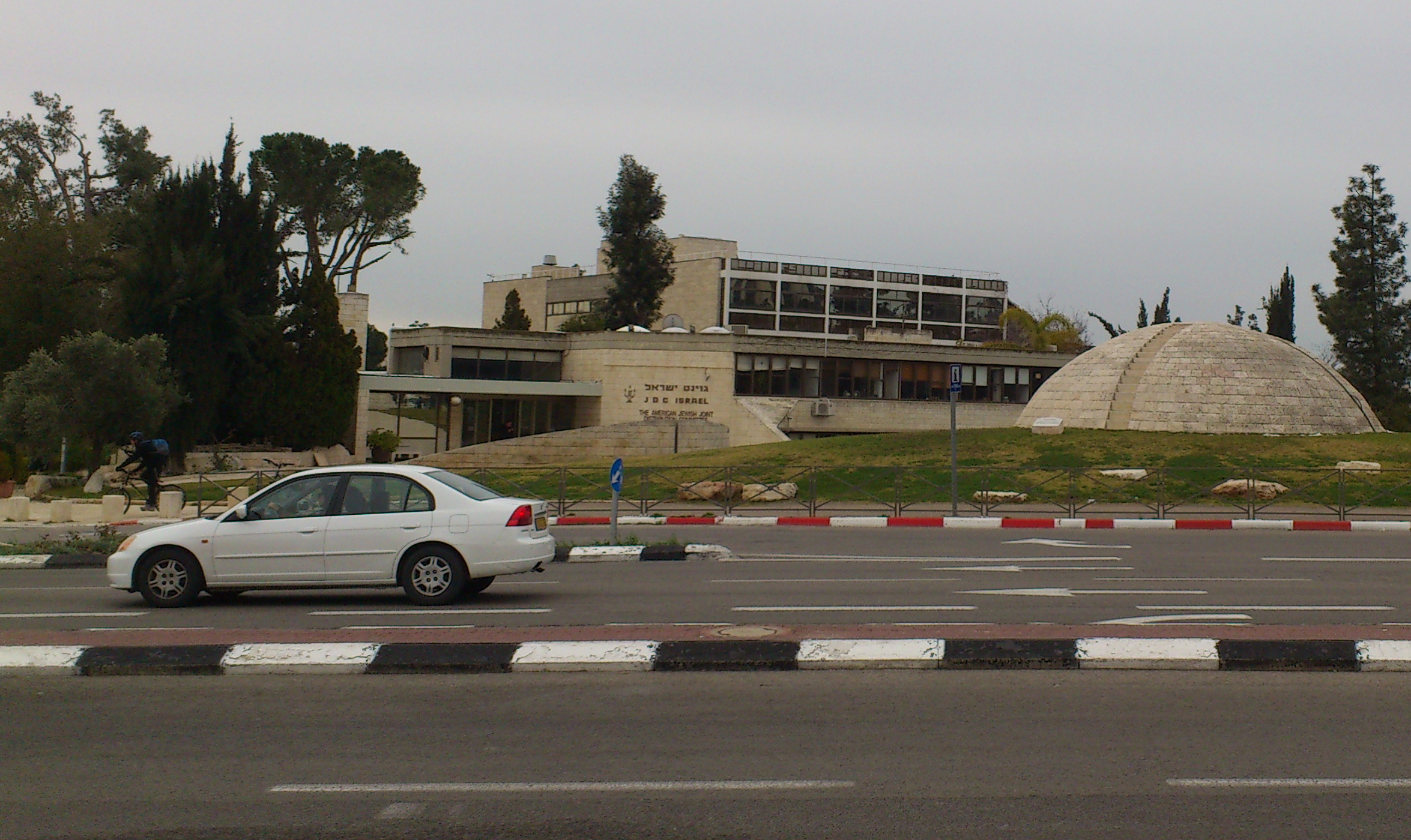 American Jewish Joint Distribution Committee